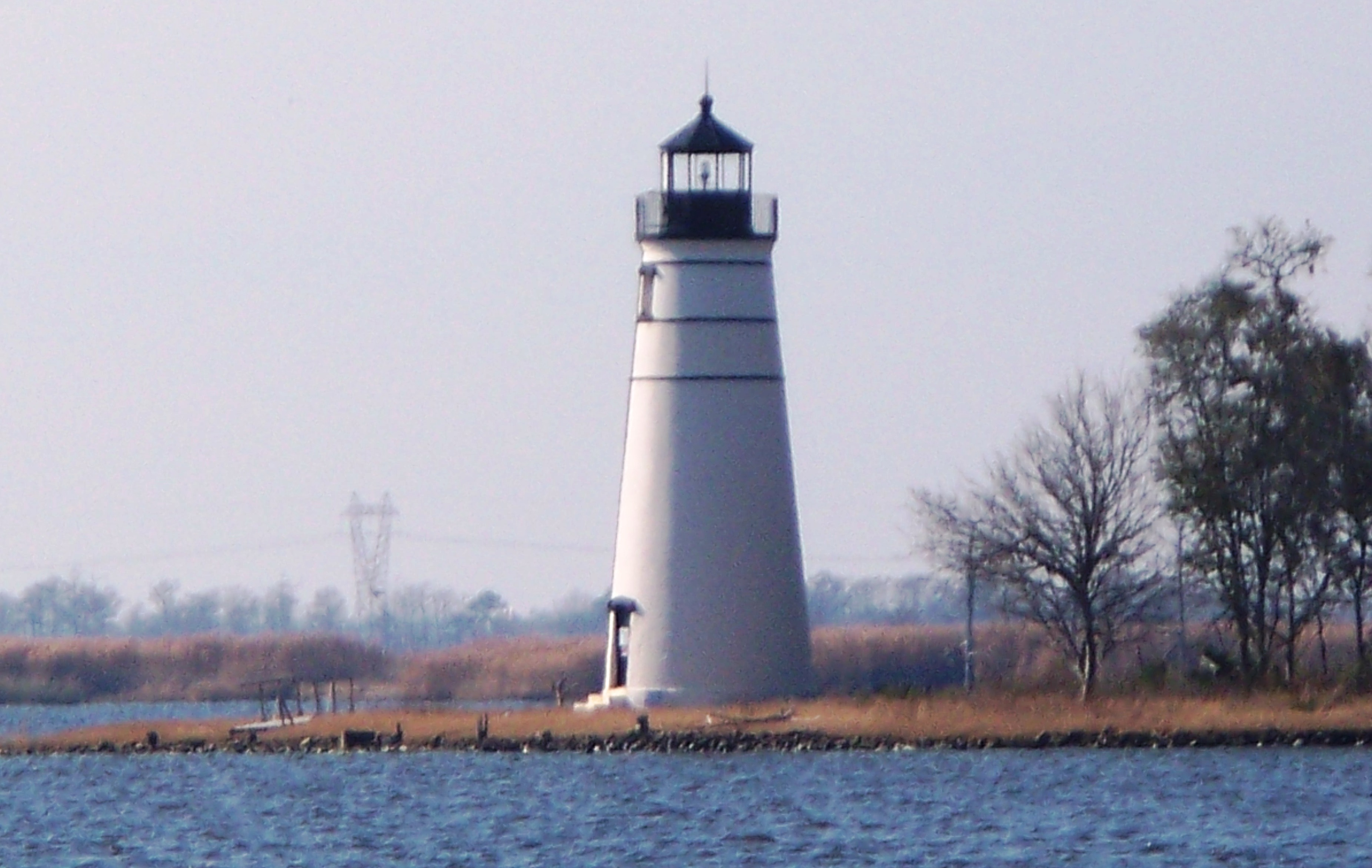 Madisonville lighthouse 2010 January 31 viewed from the east. It is often referred to as the Tchefuncte River Lighthouse. Its official name is Tchefuncta (sic) River Range Rear Light (see Light List, Volume IV, Gulf of Mexico, United States Coast Guard, 2009. p 84.)